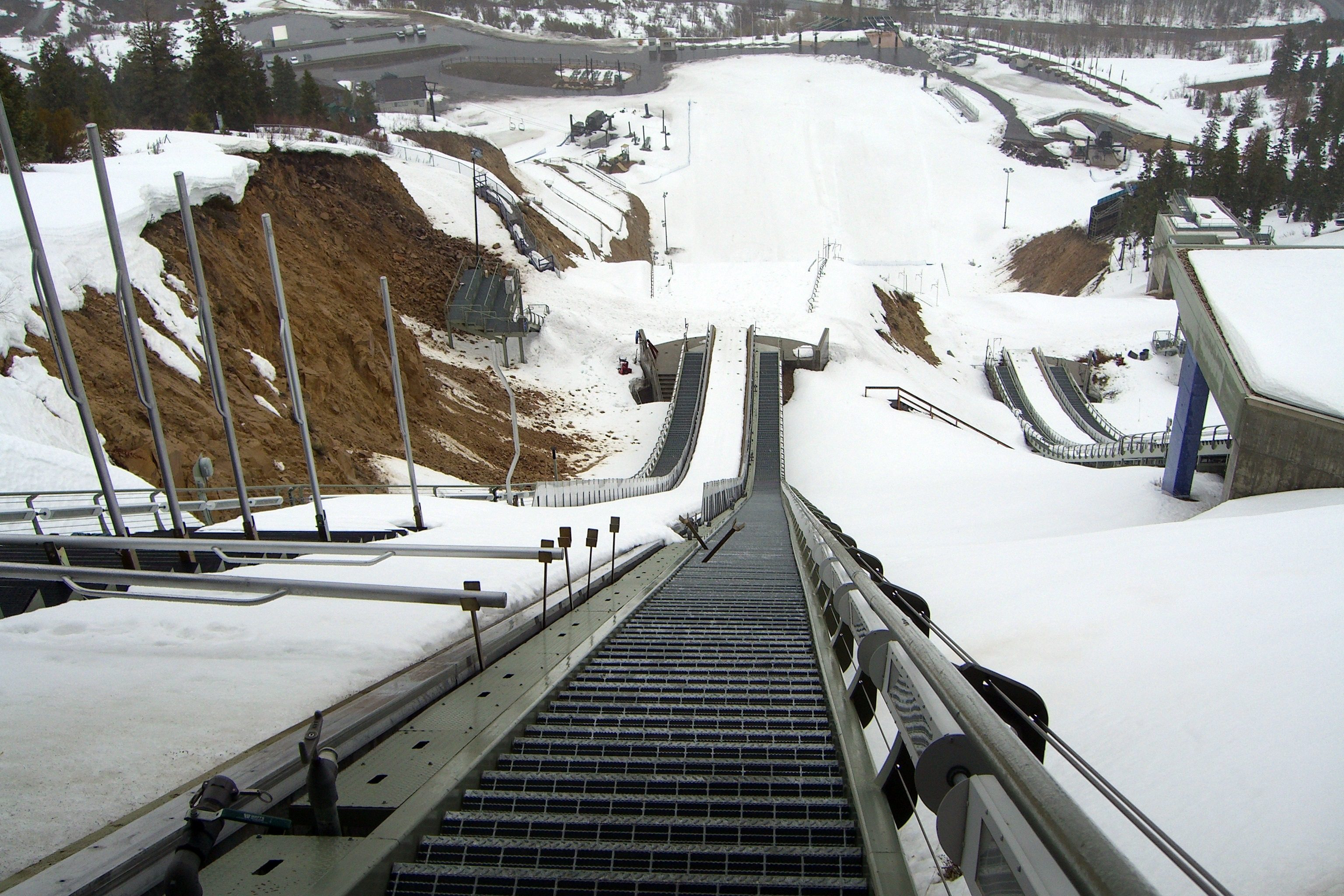 The view from the top of the ski jump at the Olympic ski jump venue in Salt Lake City, Utah for the en:2002 Winter Olympics. Taken by Reywas92 on April 6, en:2006.